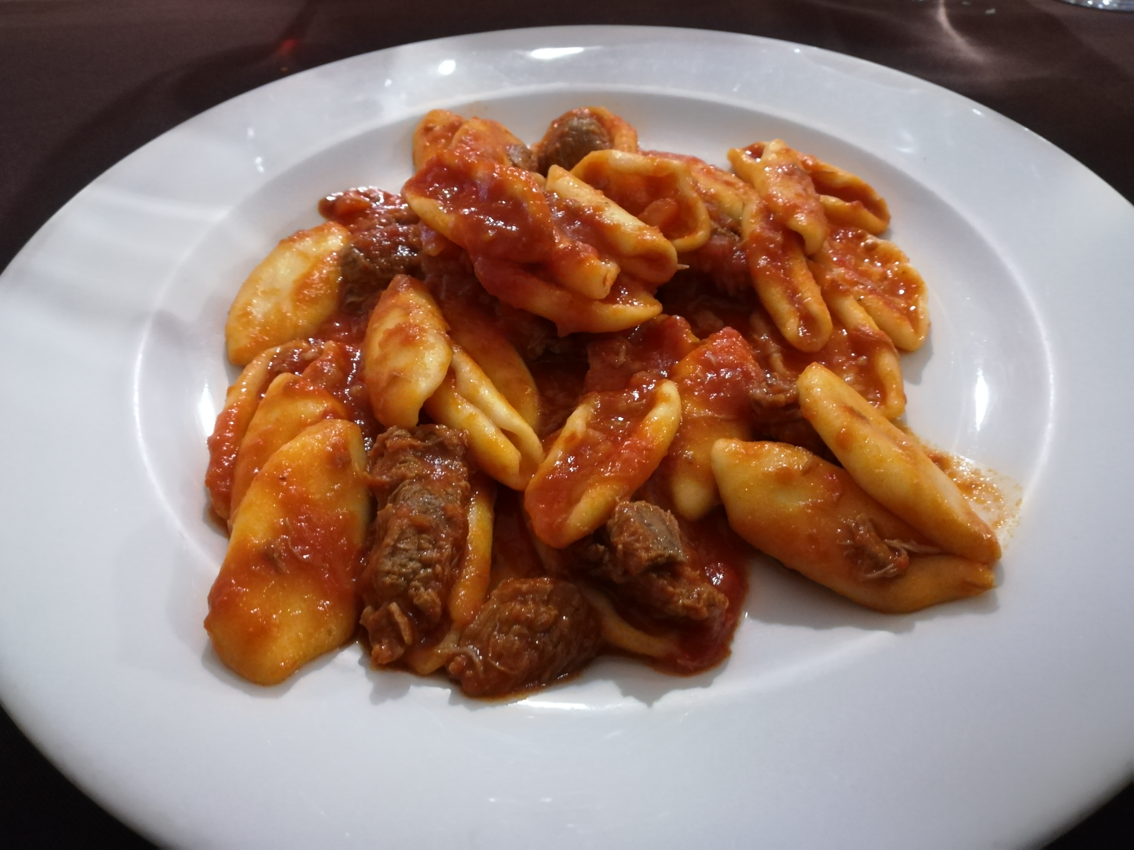 Strascinati with ragù alla potentina sauce, traditional recipe from Potenza, Italy.